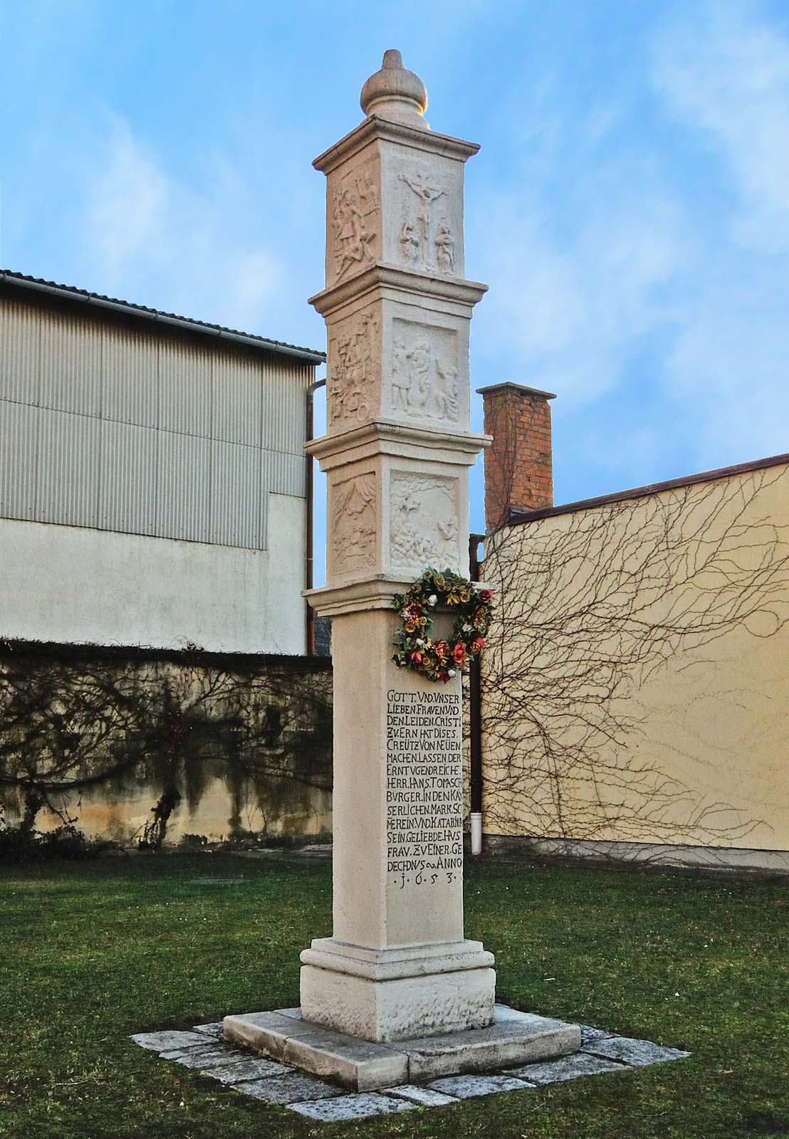 Wayside shrine in Sommerein, Lower Austria, Austria